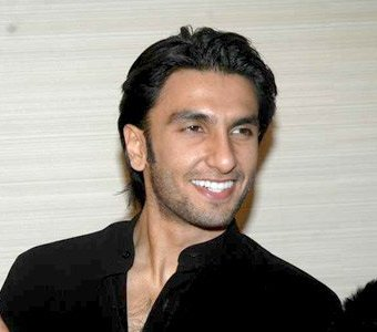 Ranveer Singh - Cast and crew of Band Baaja Baaraat at 'Dhamaka Arts & Craft Festival'